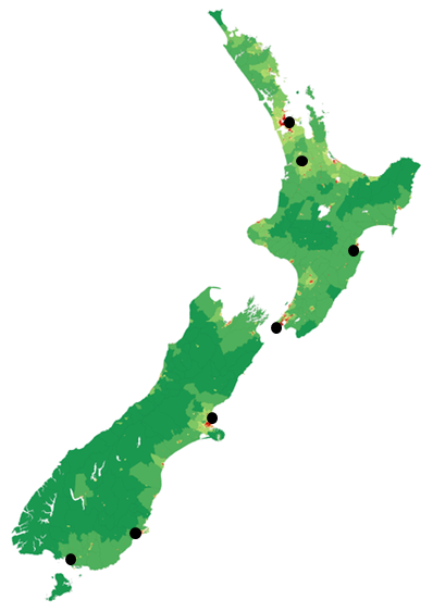 This is a map of AM Network frequencies and New Zealand population density.